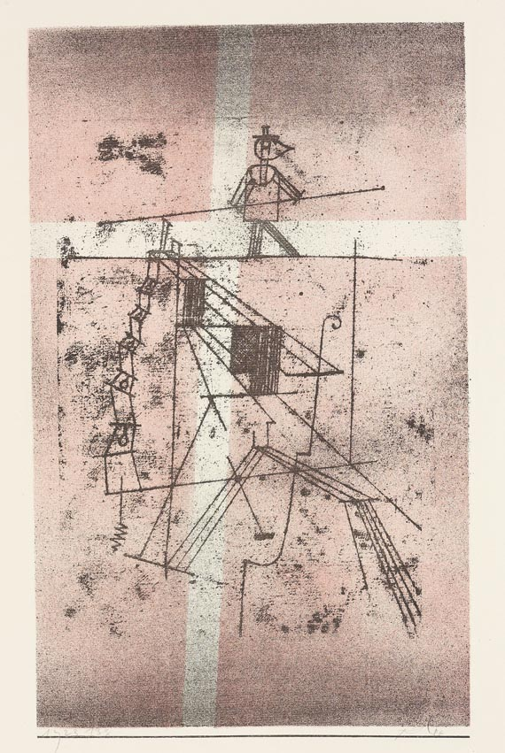 Tightrope Walker.